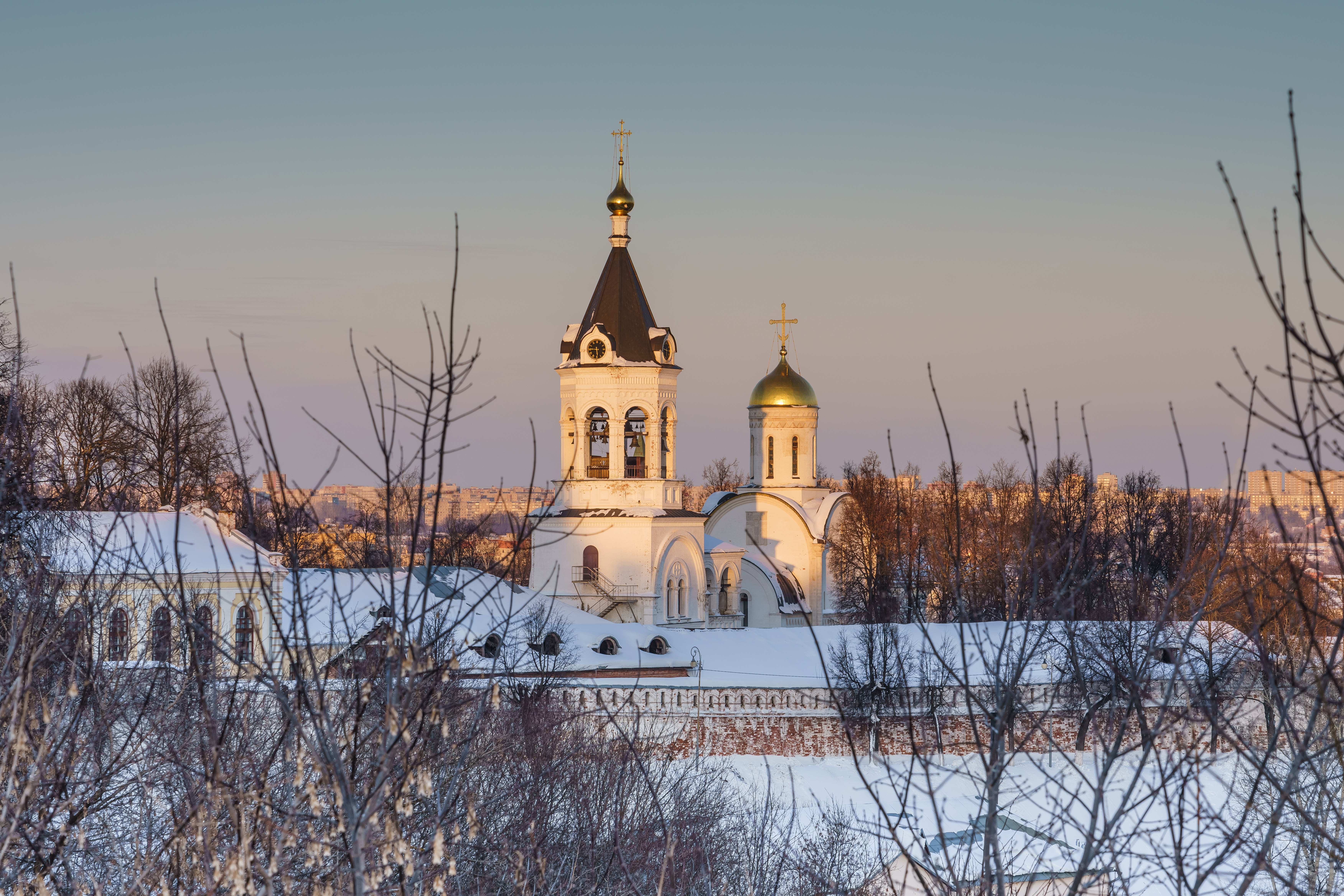 Monastery of the Nativity of St. Mary in Vladimir, Russia